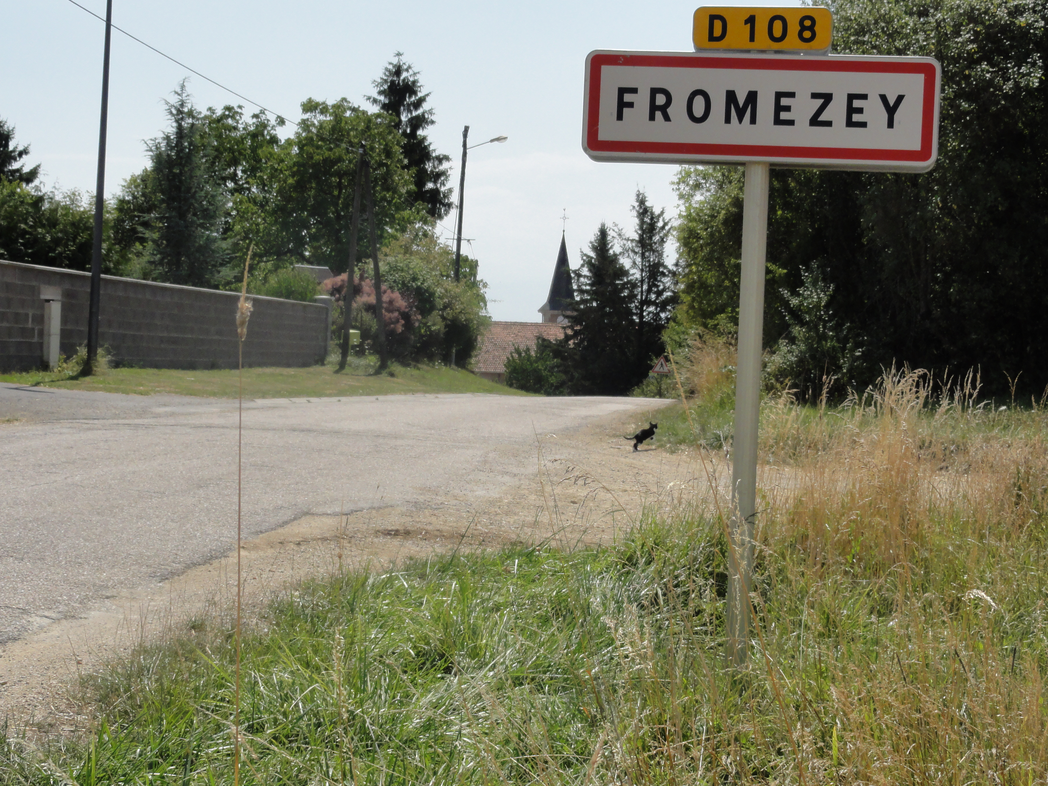 Fromezey (Meuse) city limit sign